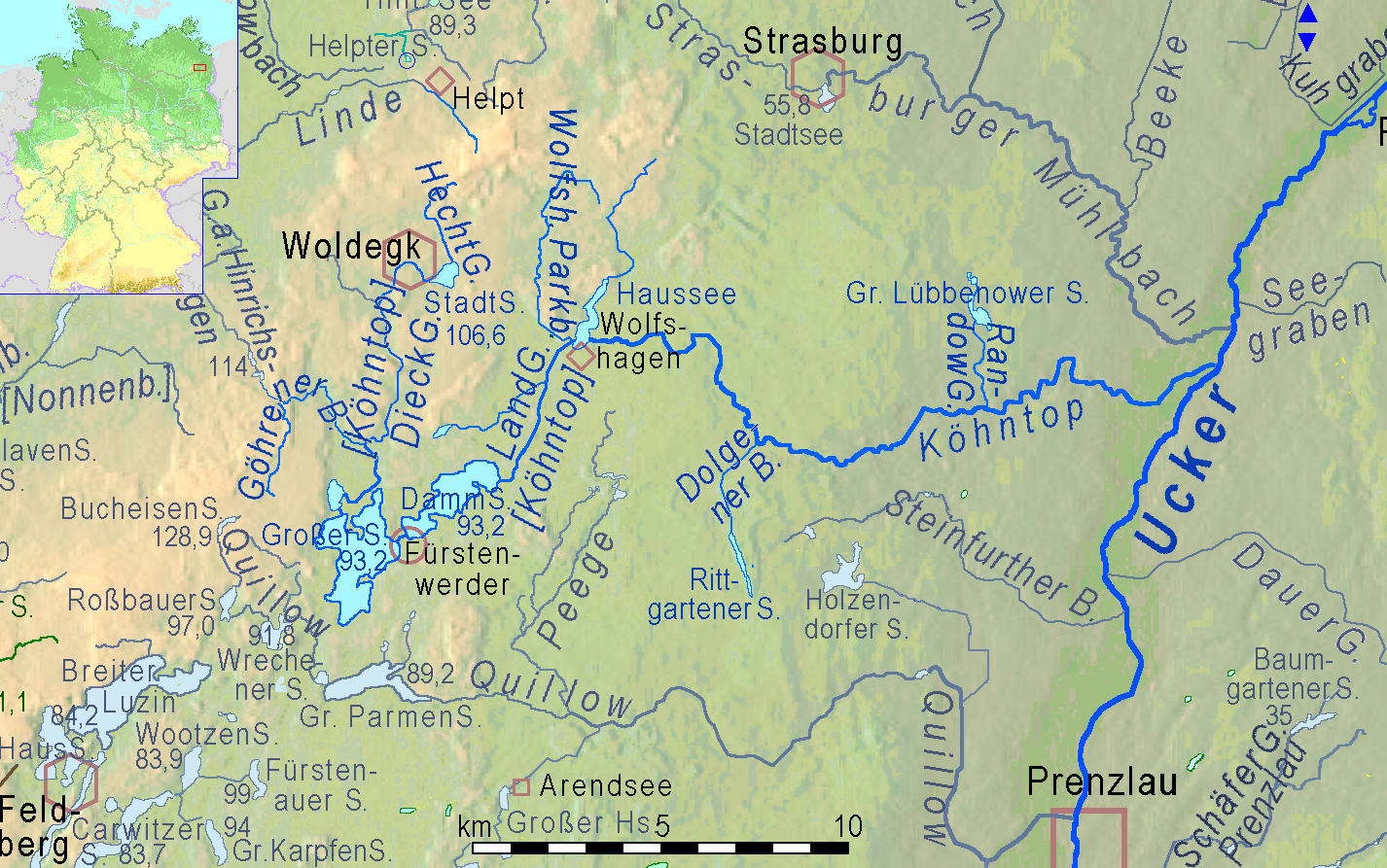 Cutout of the map of the basins of the rivers Peene, Zarow, Recknitz and Ryck; with relief background. name differring from those written in topographic maps haved been collected from water specialists of the maintaining institutions. This map may be incomplete, and may contain errors. Don't rely solely on it for navigation.